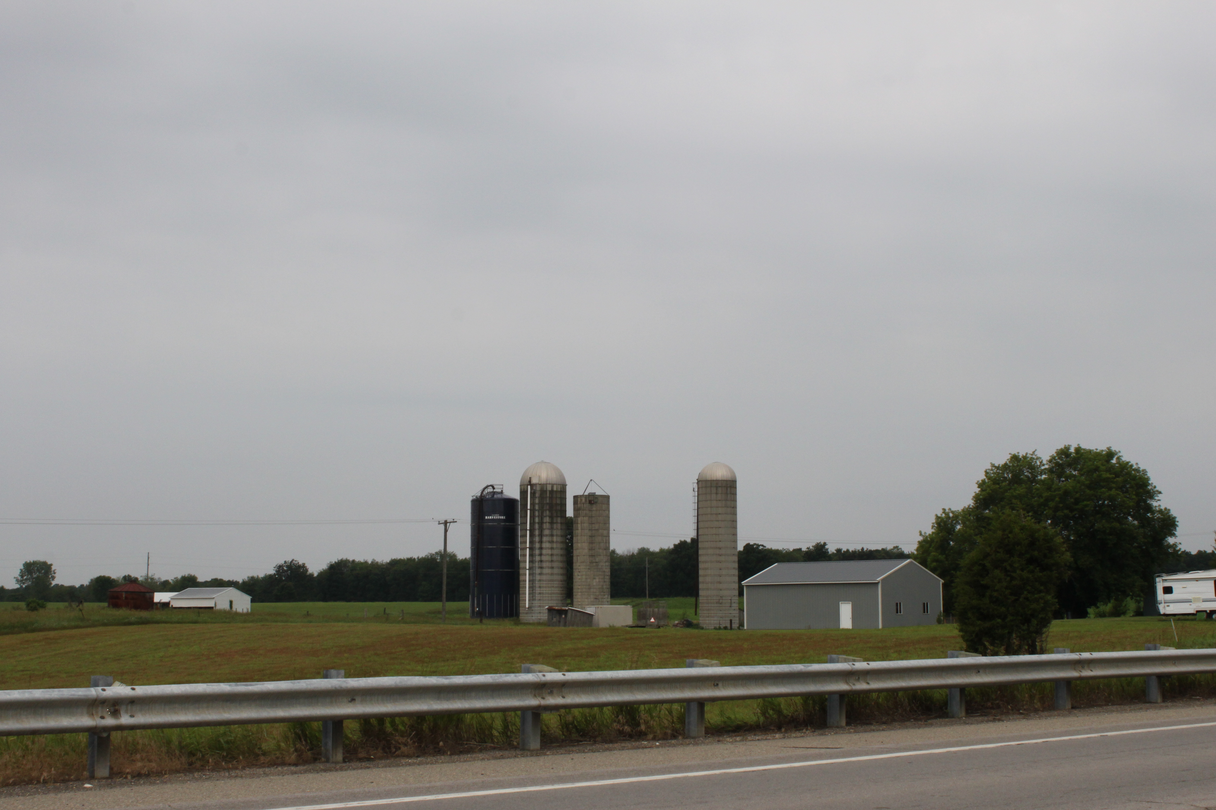 Lyndon Township Michigan, Farm at 16981 N. Territorial Road.